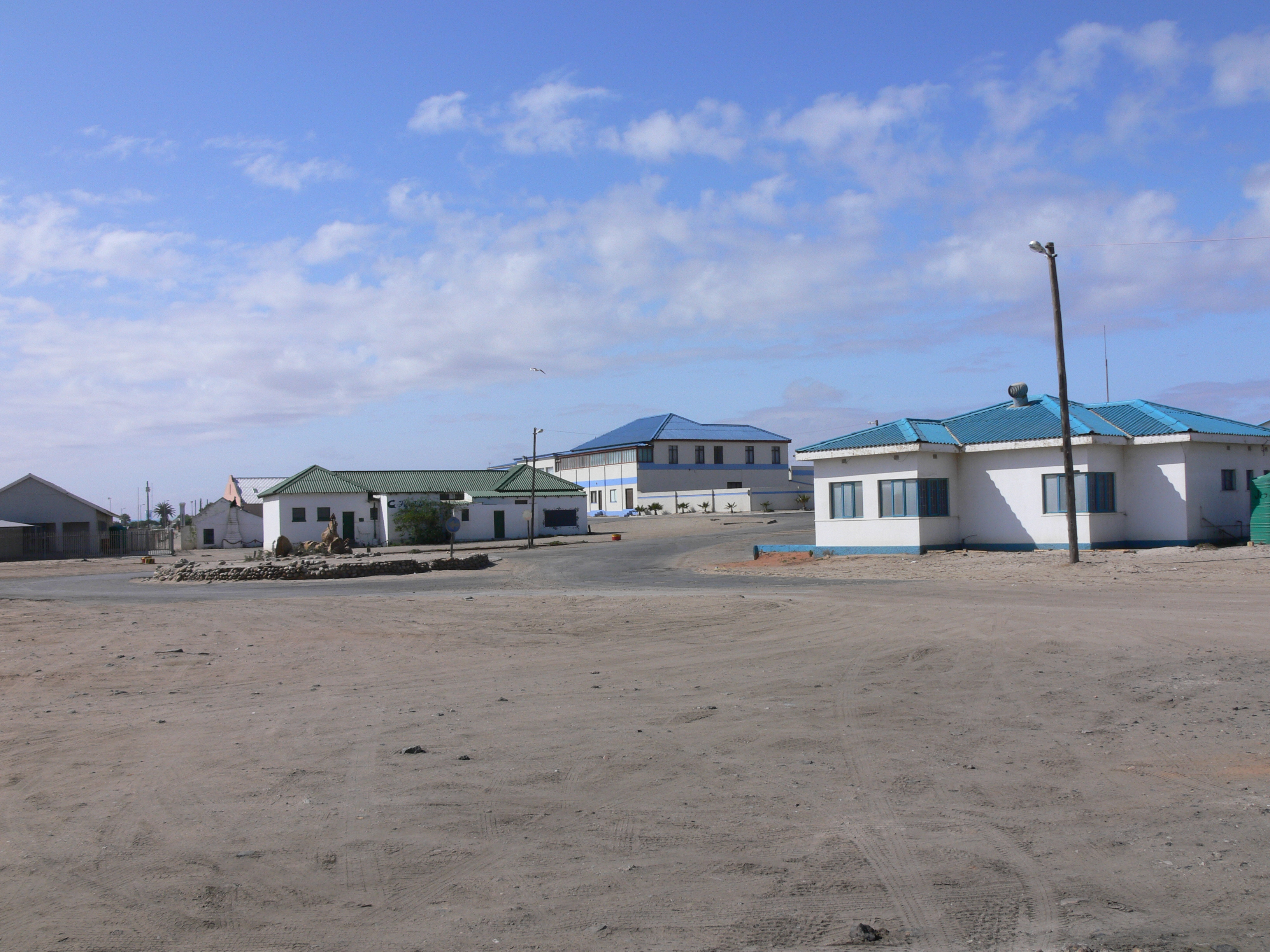 Port Nolloth is a port in the Namaqualand Region on the north western coast of South Africa